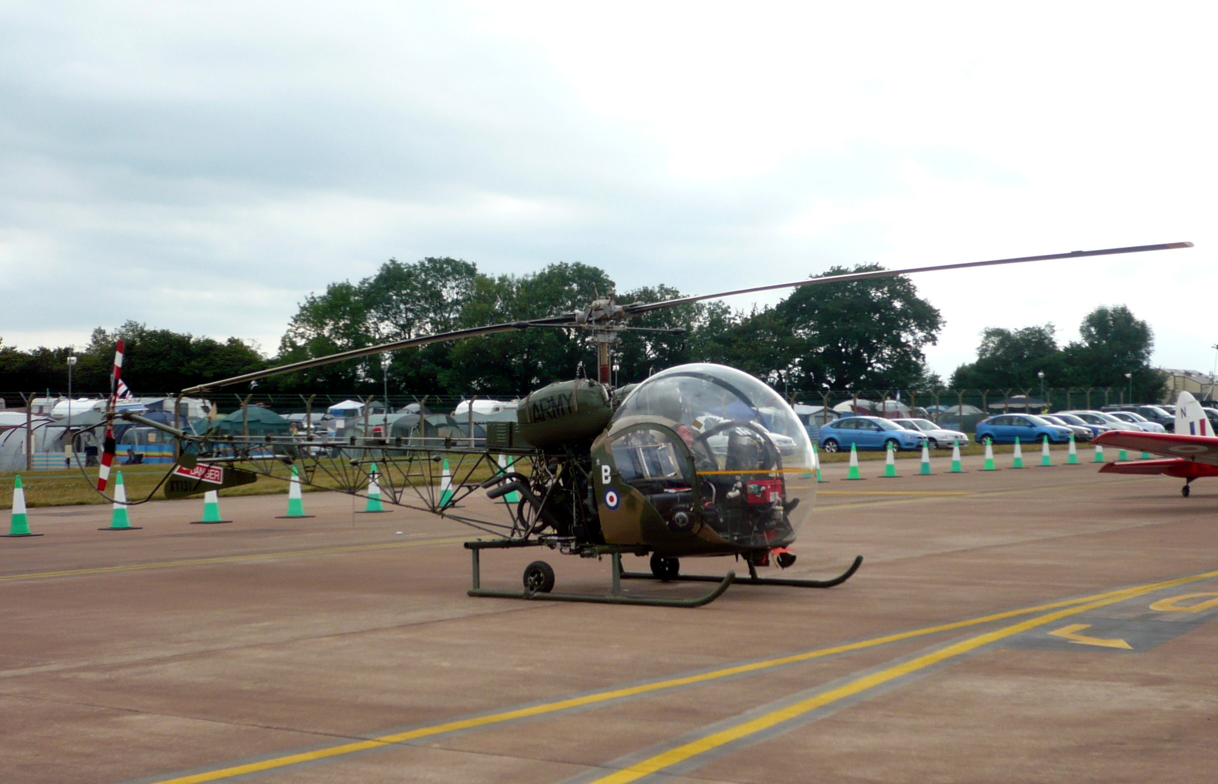 British Army Historic Flight Agusta Sioux AH.1 at RIAT 2010.